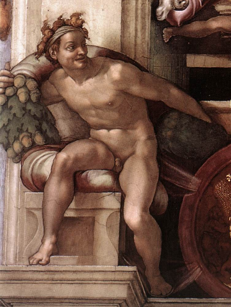 Fresco on the Sistine Chapel ceiling